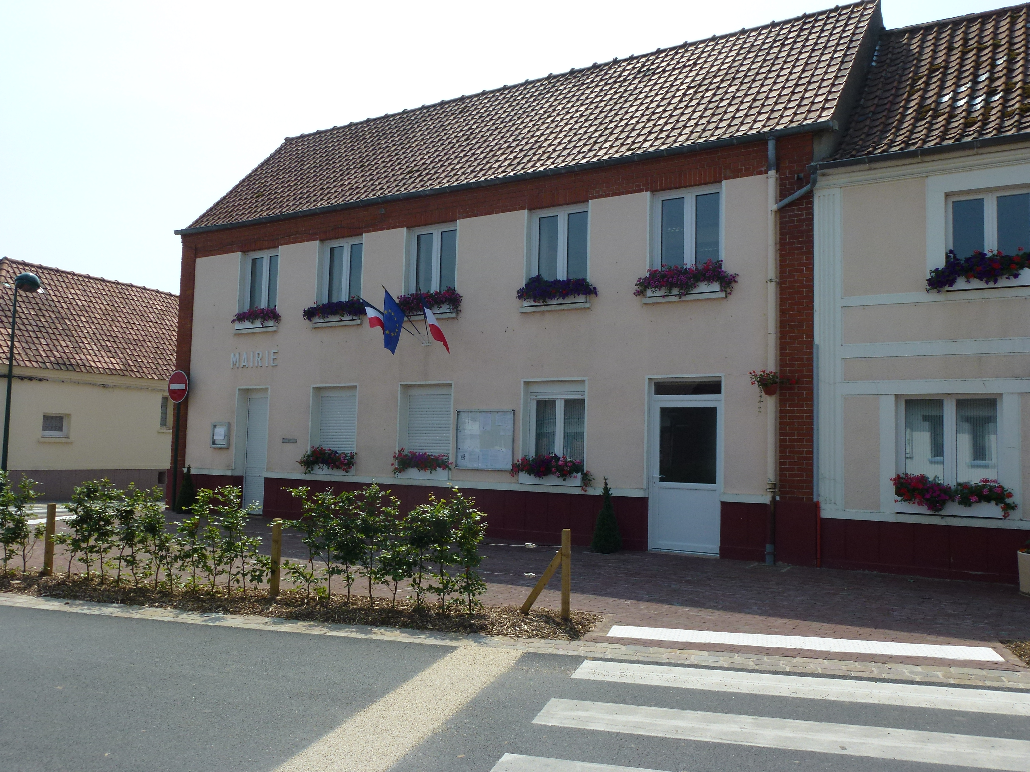 Roquetoire (Pas-de-Calais, Fr) mairie